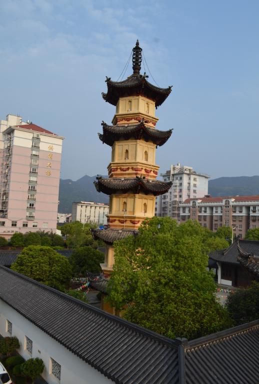 中文（中国大陆）: source=Own work author=*庆善寺塔.PNG: 云中漫步